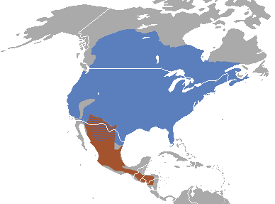 Range of the genus Mephitis. Composite from the species.